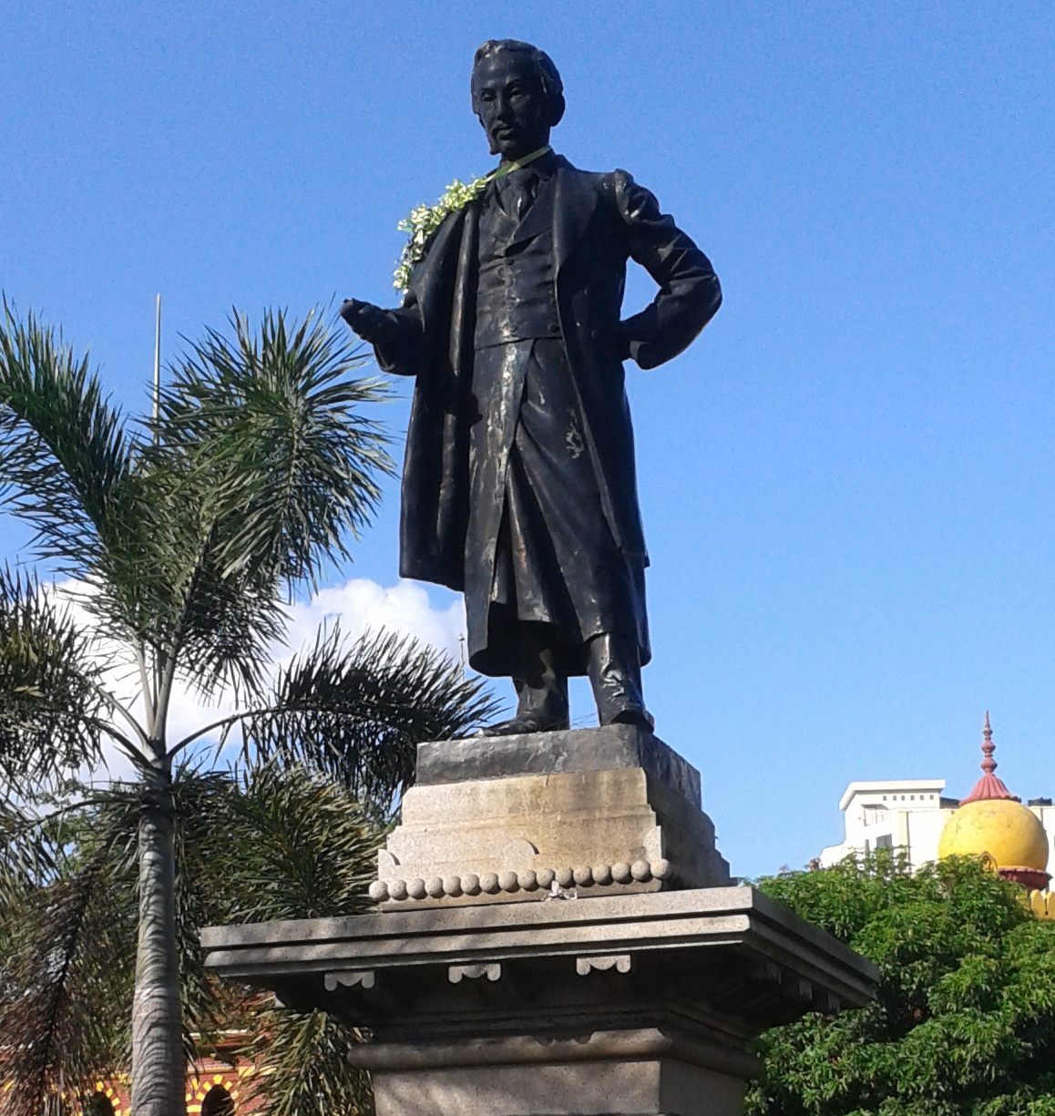 De Soysa statue at De Soysa/Liptons Circus Colombo